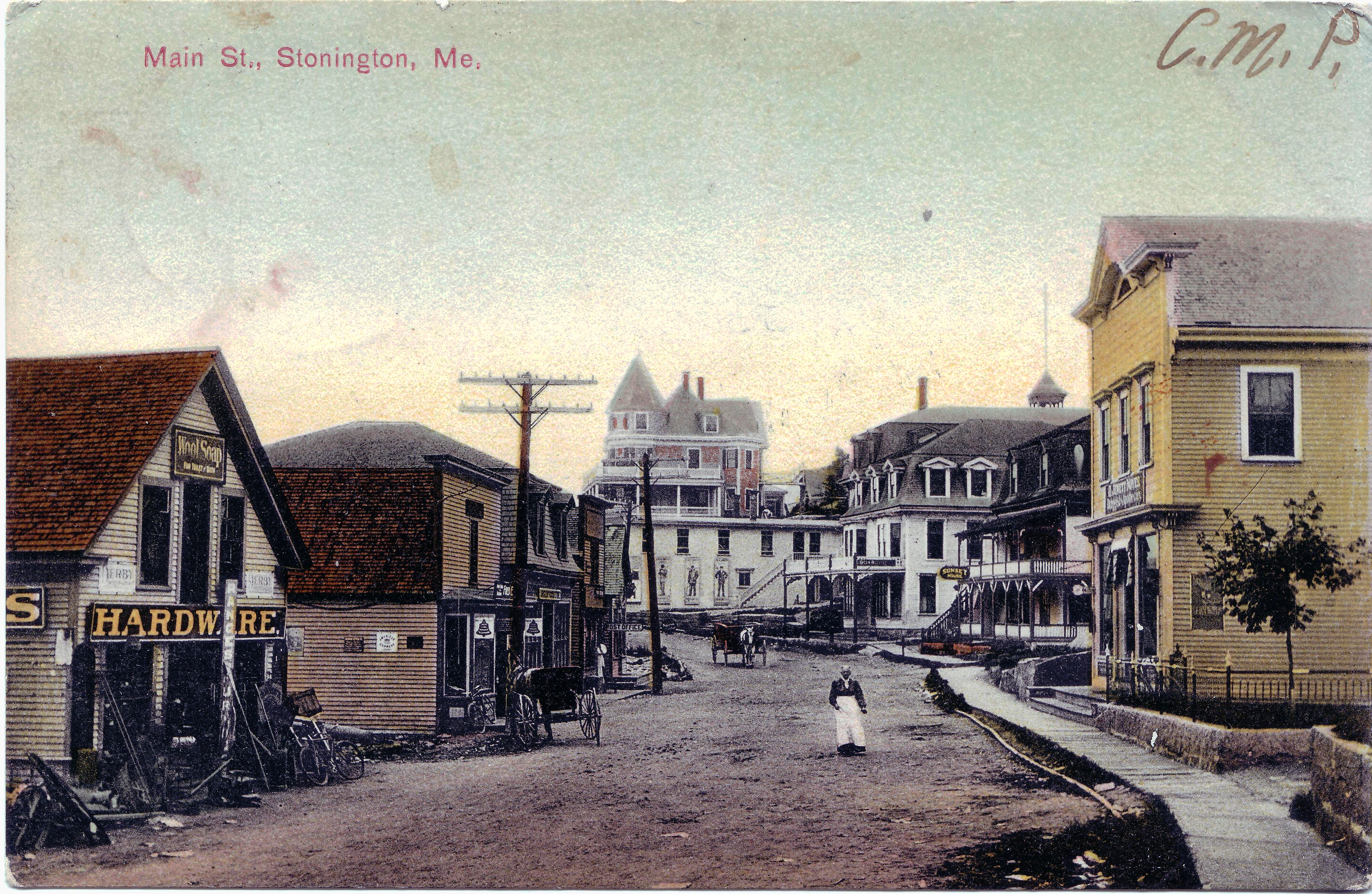 circa 1907 Main St. Stonington, Maine Main Street looking west. Postmarked Stonington, August 13th 1907. Sent to Herbert K. Pratt of Bridgewater, Mass.